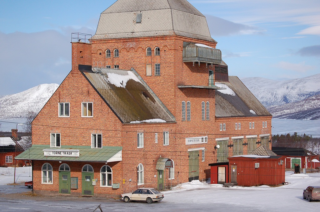 Torneträsk (Lake Torneå) railway station on the Malmbanan in Sweden